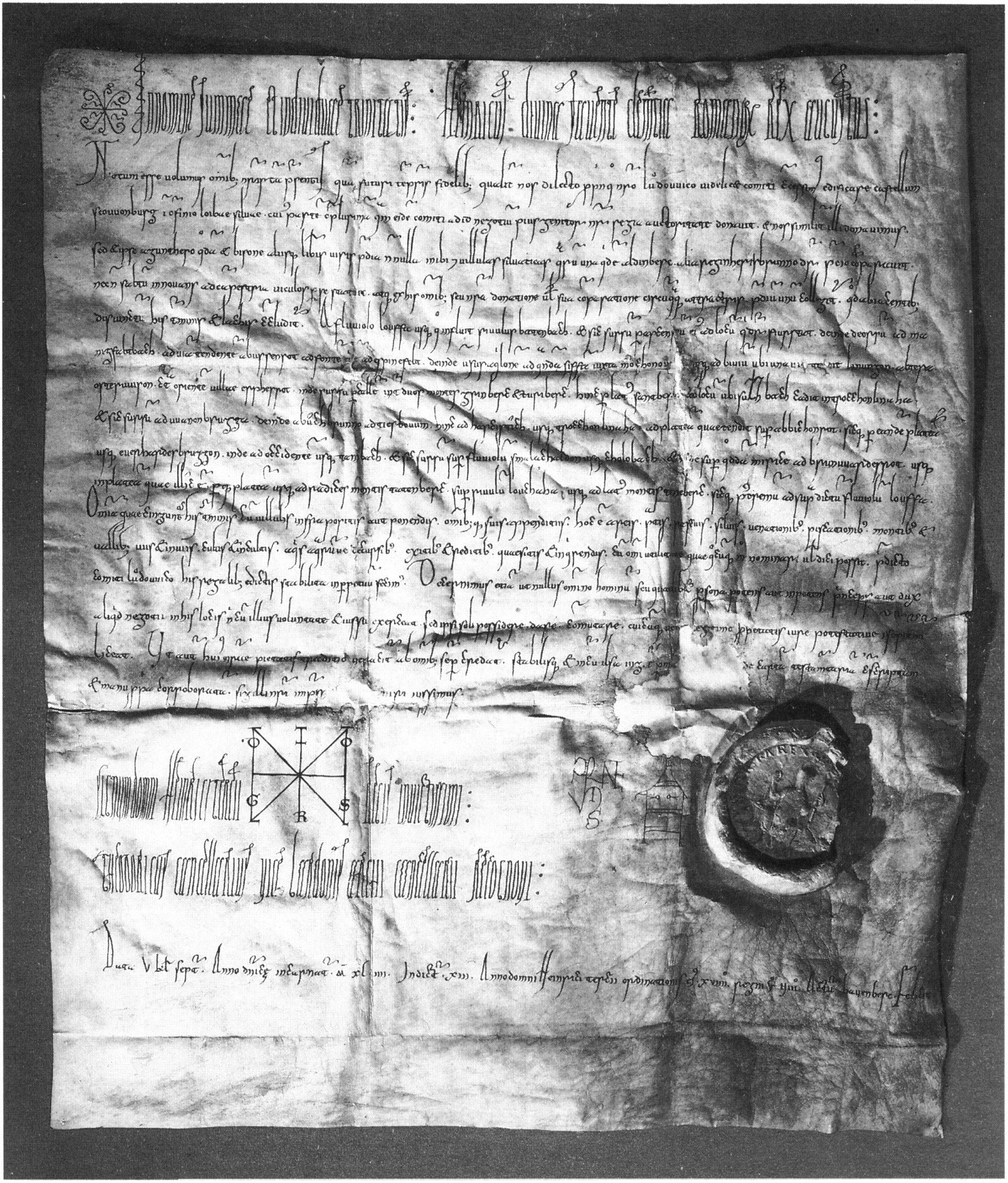 A charter of emperor Henry III for Louis, Count of Schauenburg. Staatsarchiv Weimar.